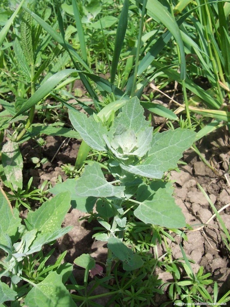 White Goosefoo (Chenopodium album)